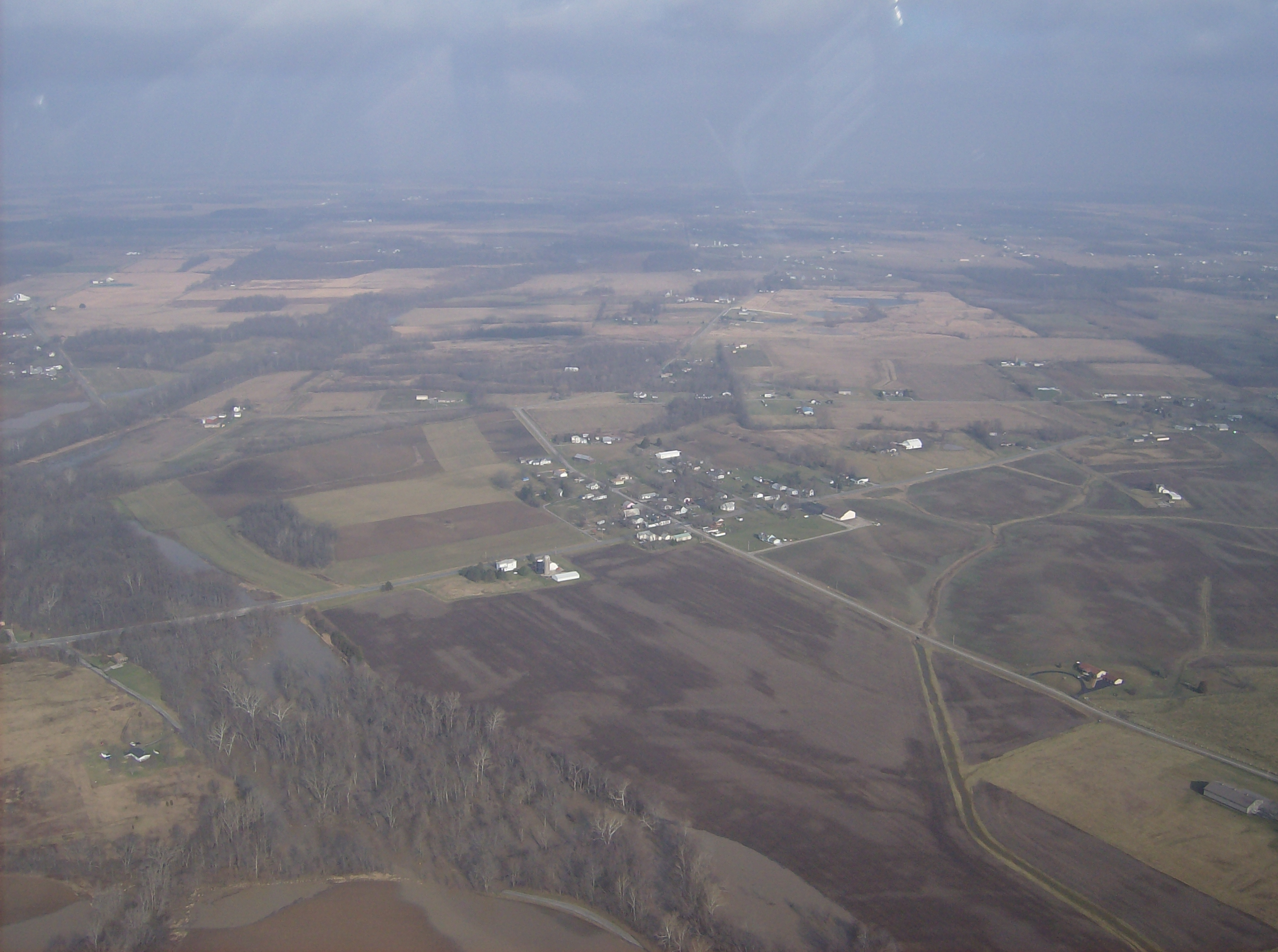 Aerial view of Logansville, an unincorporated community in central Pleasant Township, Logan County, Ohio, United States, taken from Diamond Eclipse light airplane. Picture taken from an altitude of 2,350 feet MSL at an bearing of approximately 38º.